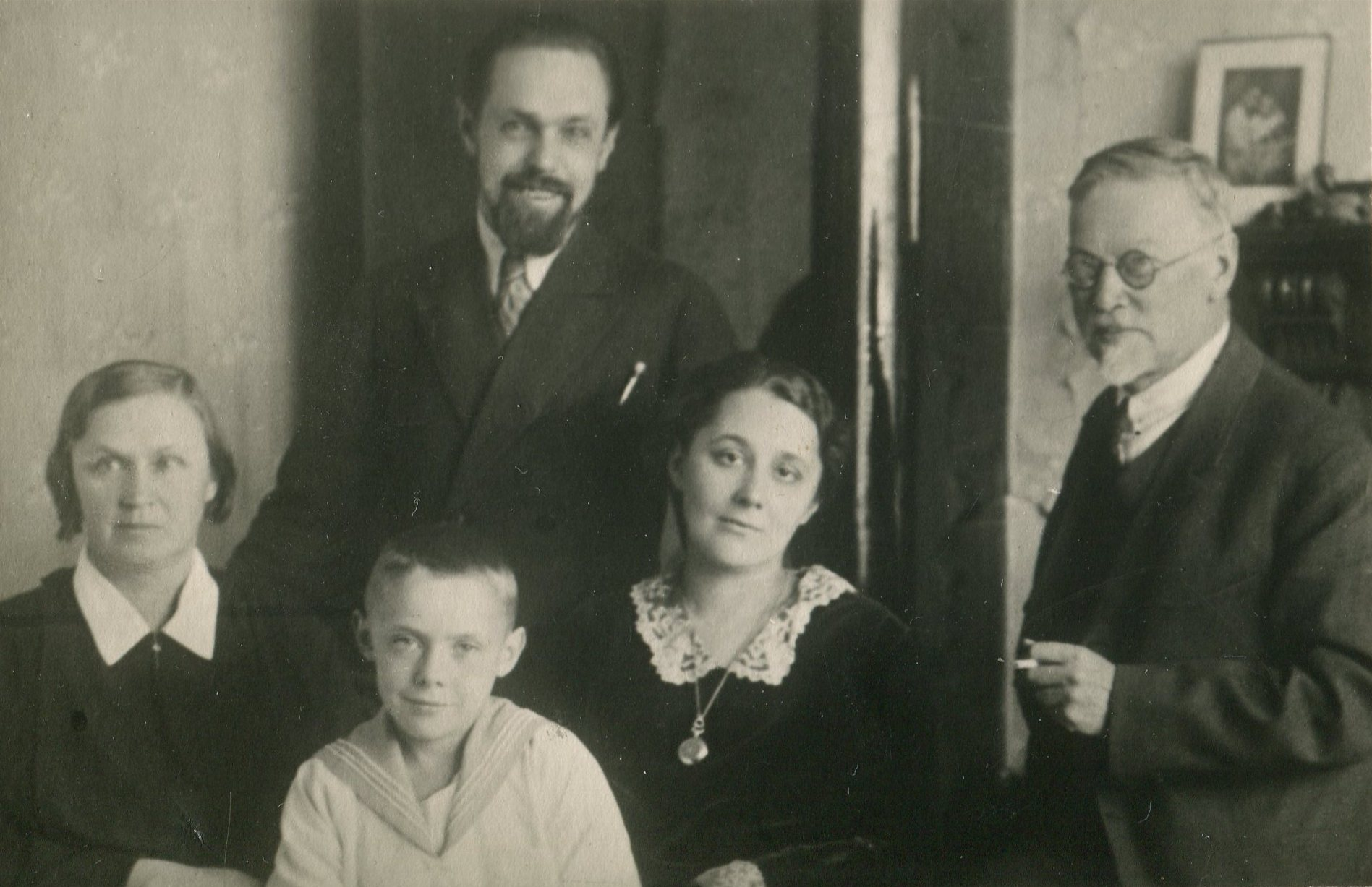 A.K.Janson with the family of his foster-son Mikhail.